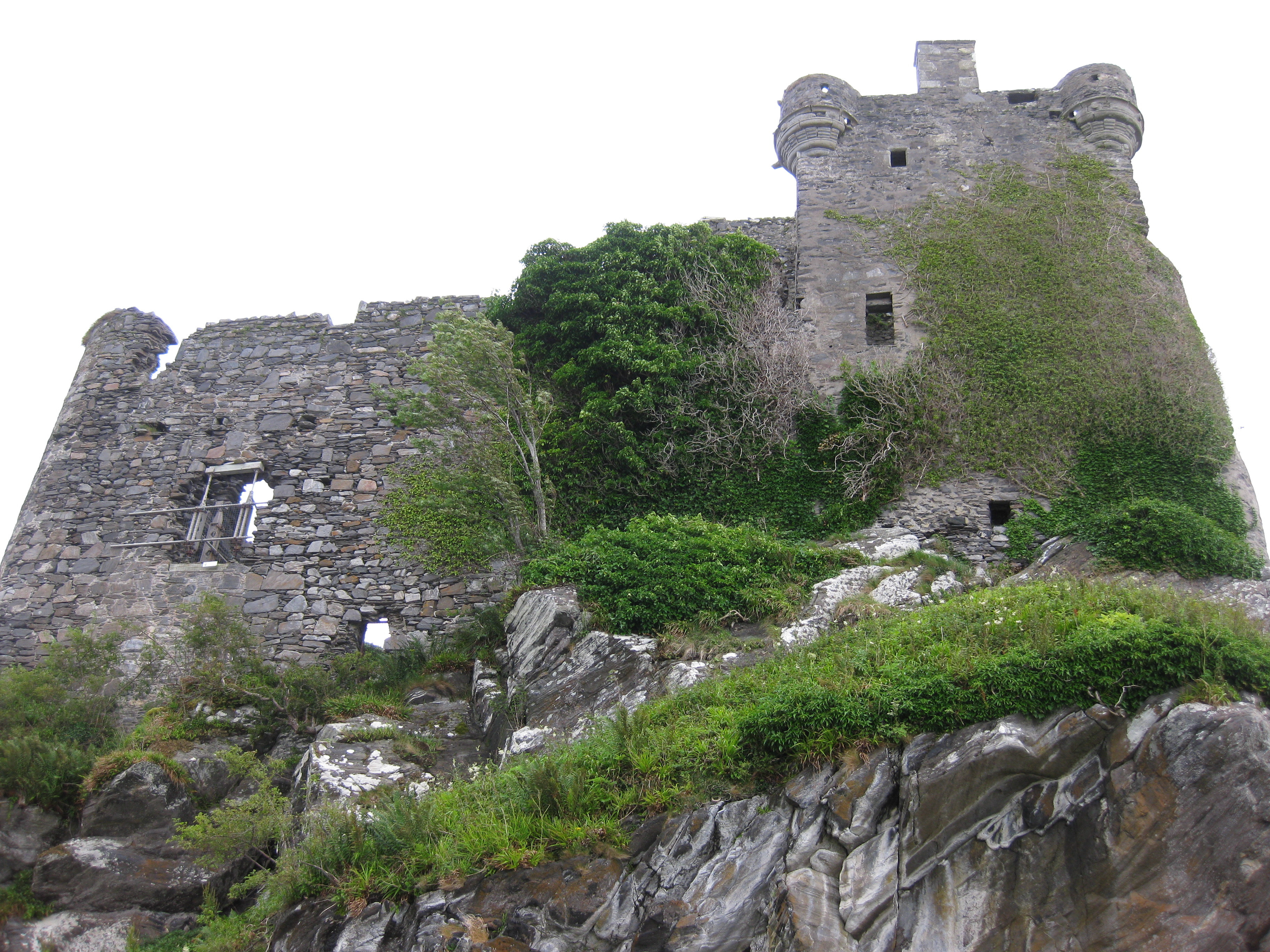 Tioram Castle, photograph from seaside, view up, Juli 2010